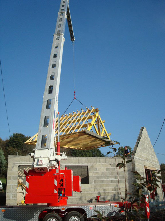 Lift by a klaas crane